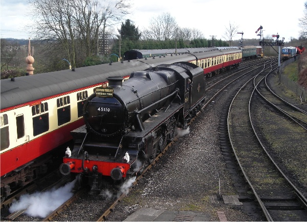 Black Five No.45110